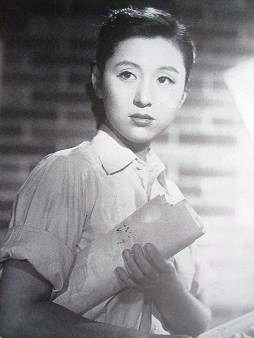 Keiko Tsushima in 1953 Japanese movie Miseraretaru Tamashii